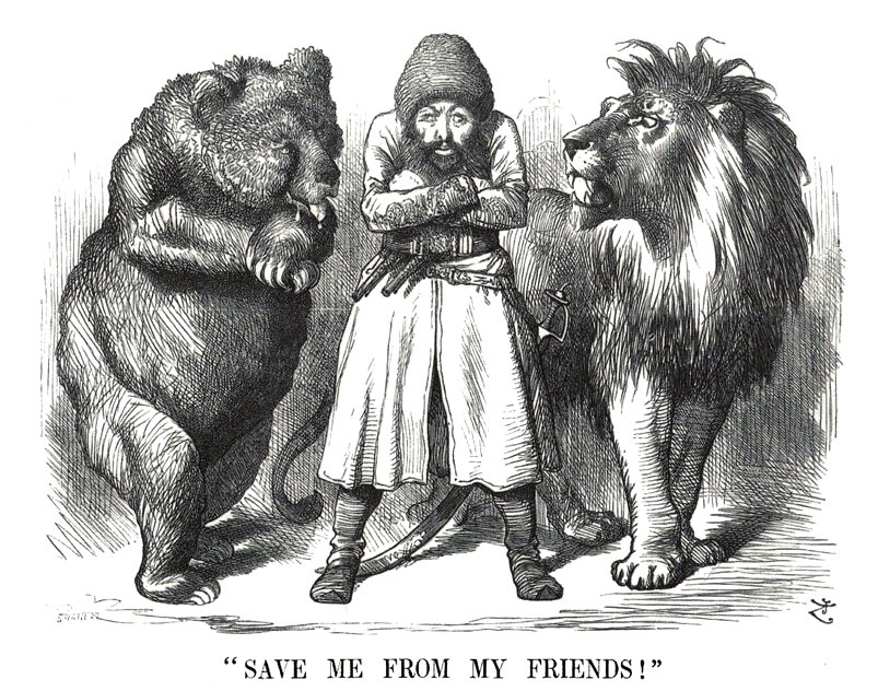 The Great Game: the afghan Emir Sher Ali Khan with his "friends" Russia and Great Britain. Text: "Save me from my friends."